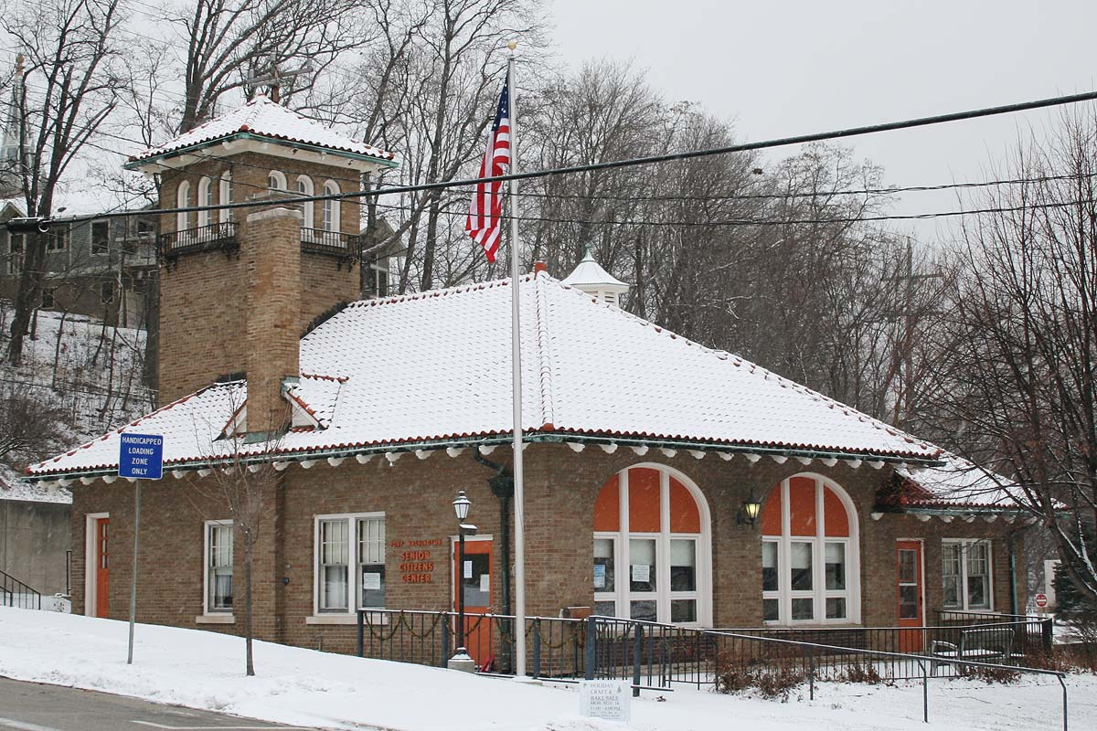 Port Washington Fire Engine House, Registered Historic Place in Port Washington, Wisconsin.